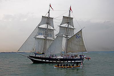 Image by DP Kilfeather. .